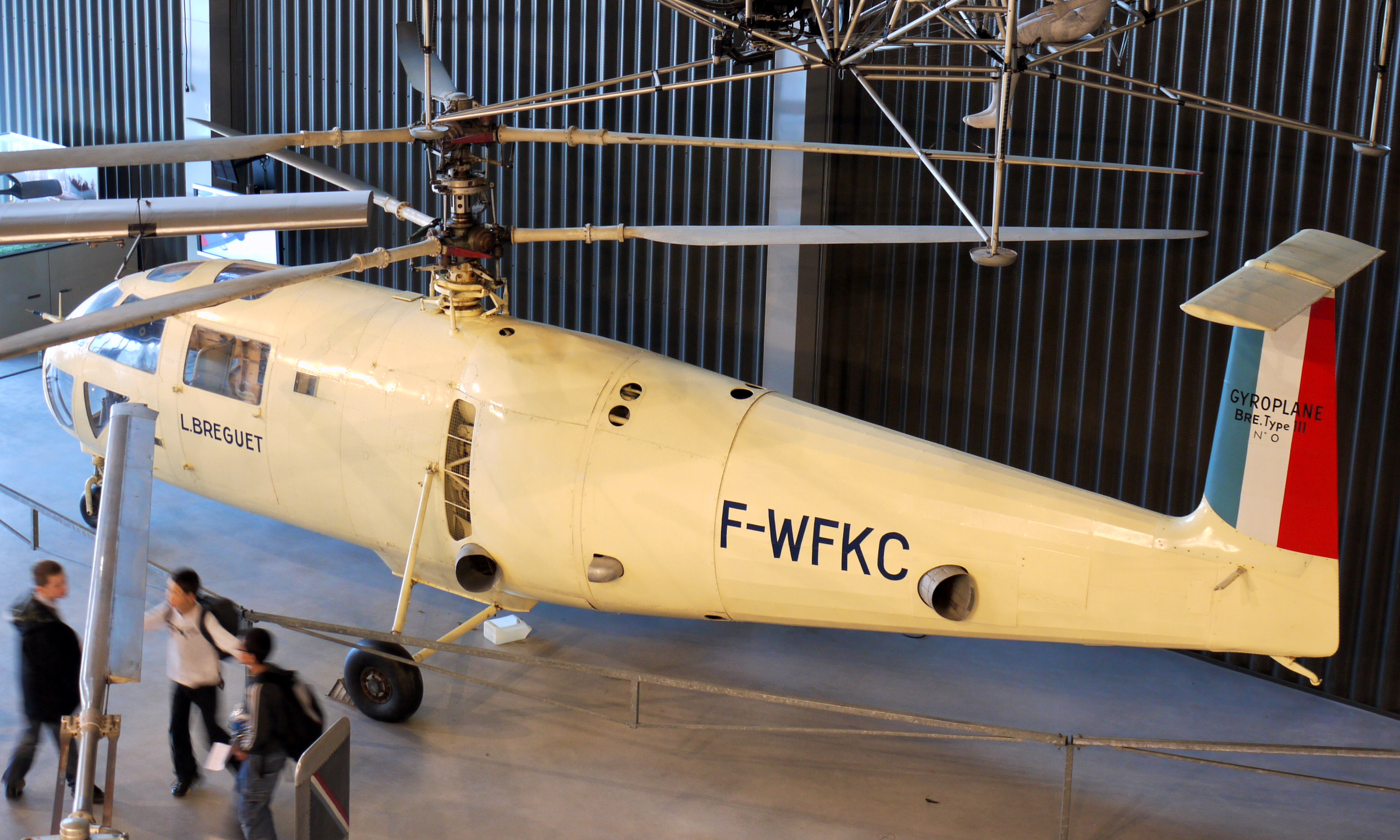 Experimental helicopter Breget G-111(1951), Museum of Air and Space Paris, Le Bourget (France)